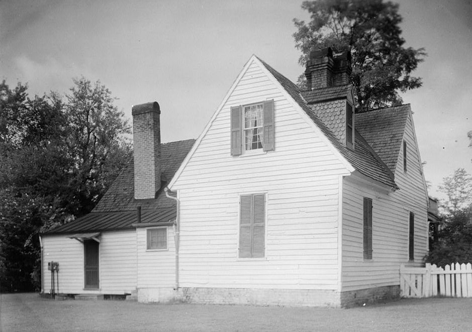 Photograph of the Governor John Page house, Williamsburg, Virginia, in the vicinity of the Palace Green. Building initially constructed about 1725.